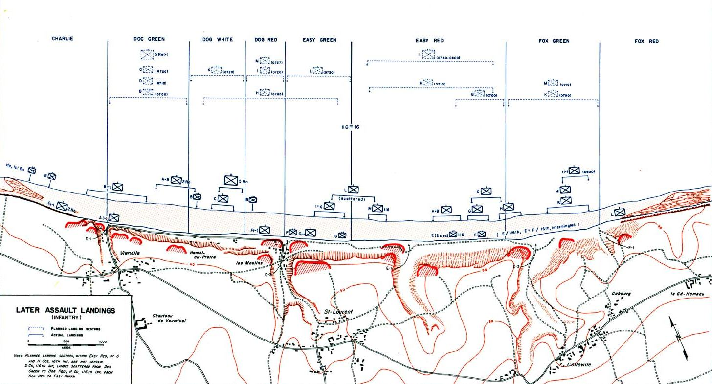 Second wave landings, Omaha Beach, June 6, 1944